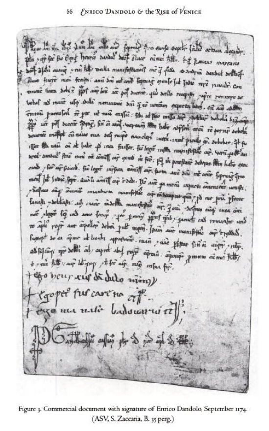 Commercial document from 1174, San Zaccaria in Venice, signed by doge Enrico Dandolo